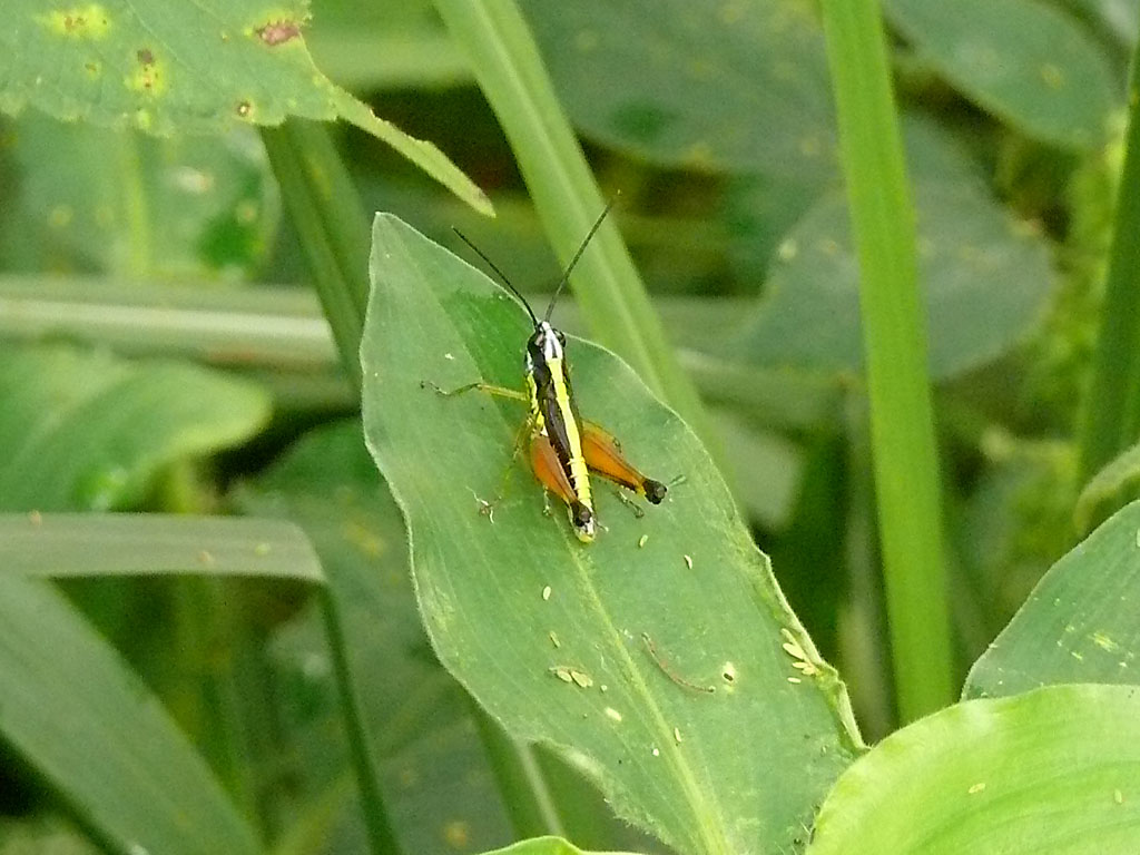 Male Zacompsa pedestris photographed in Katavi National Park, Tanzania.